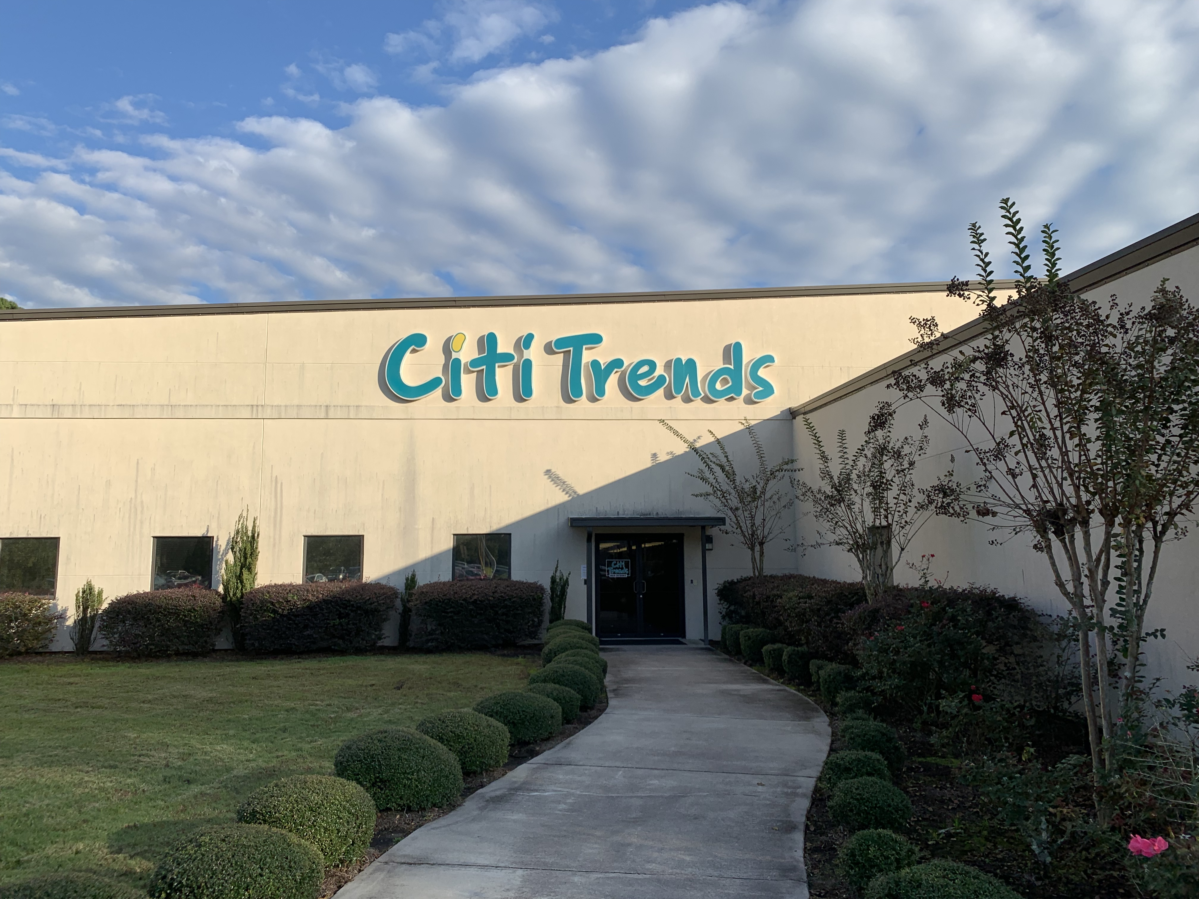 Citi Trends corporate headquarters in Savannah, Georgia, USA.